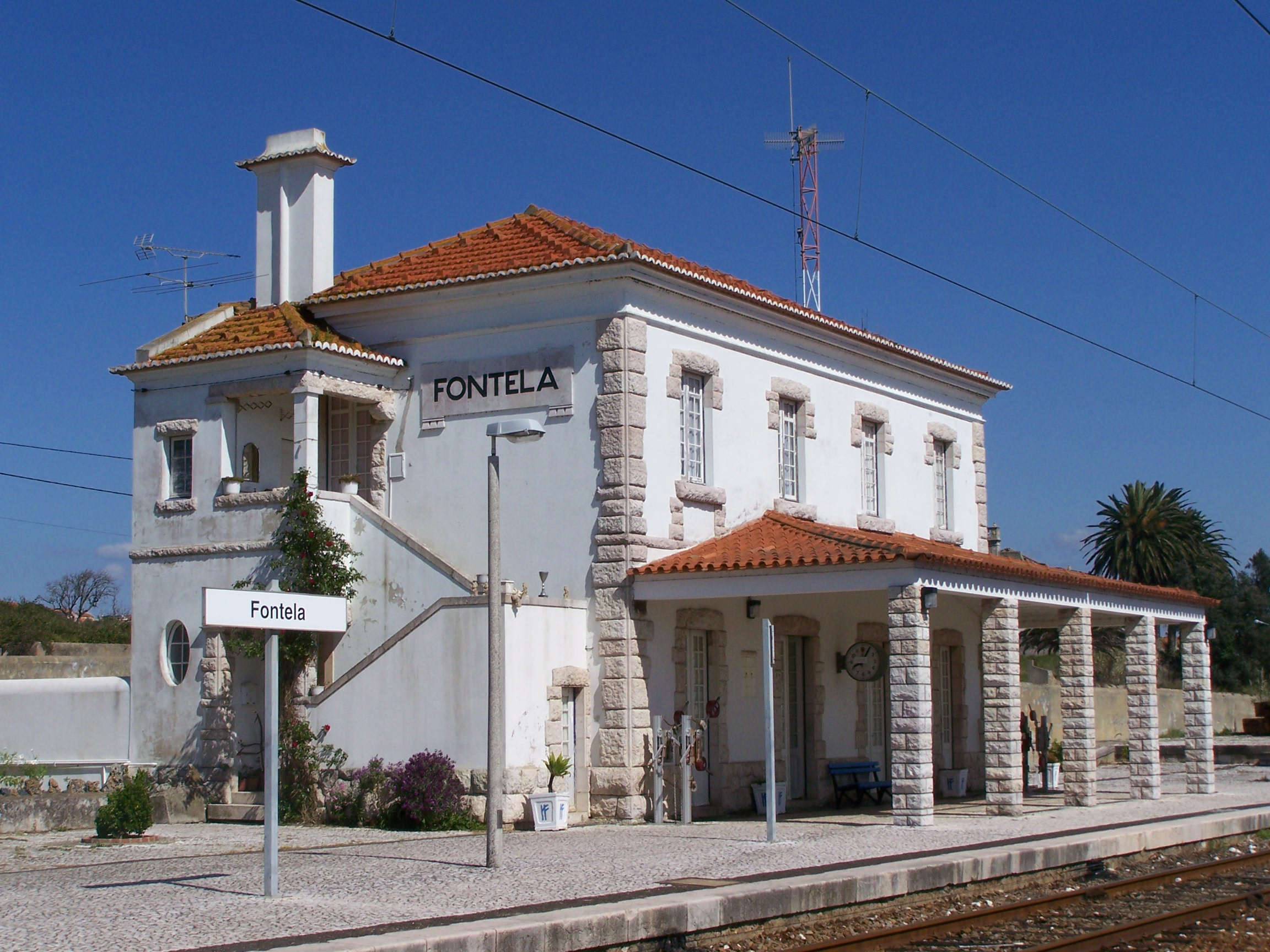 The portuguese train station Fontela, near Figueira da Foz.